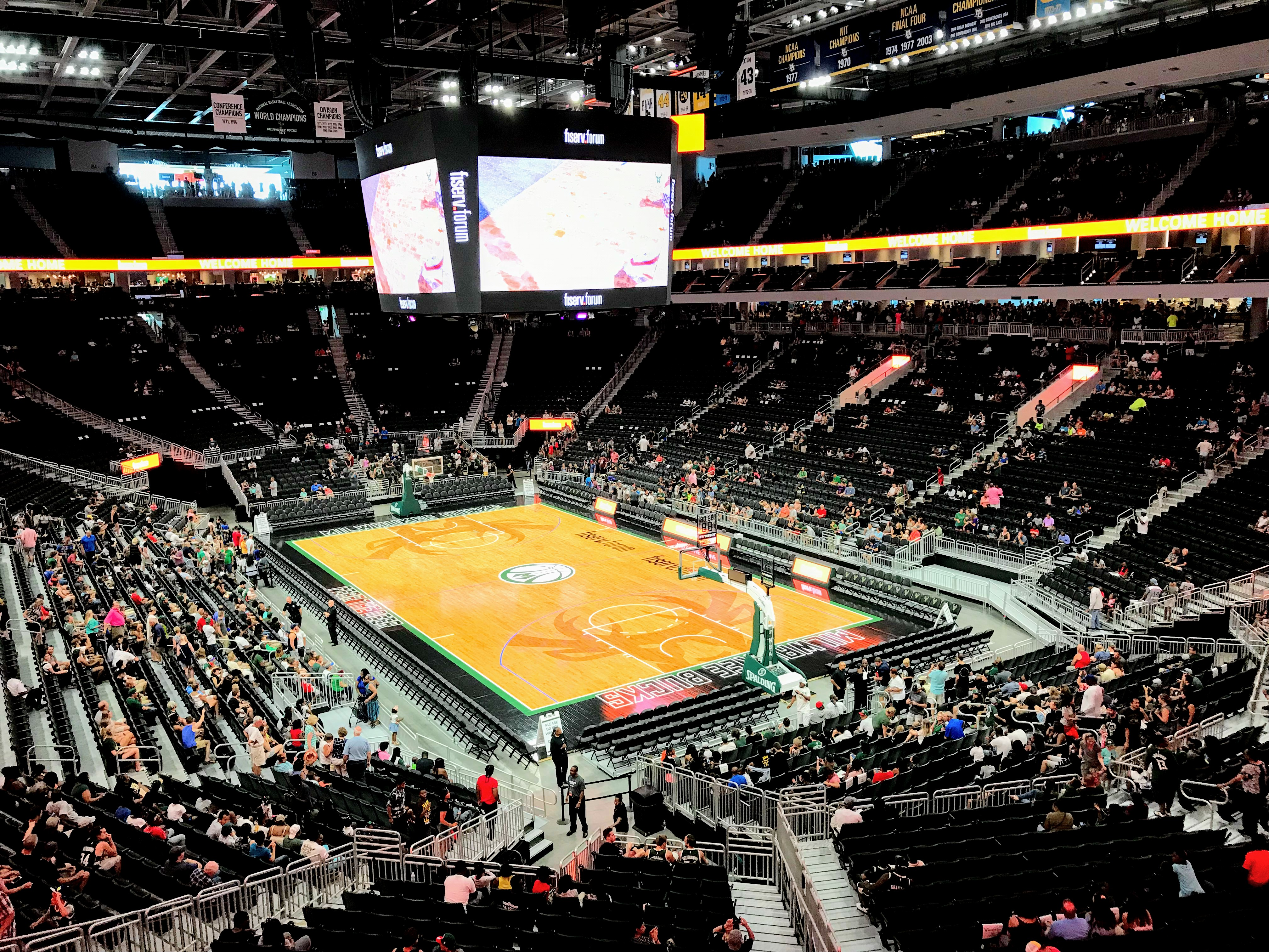 A picture showing the seating bowl, court, and suspended scoreboard within the Fiserv Forum, the arena that the Bucks play in, in downtown Milwaukee, Wisconsin.